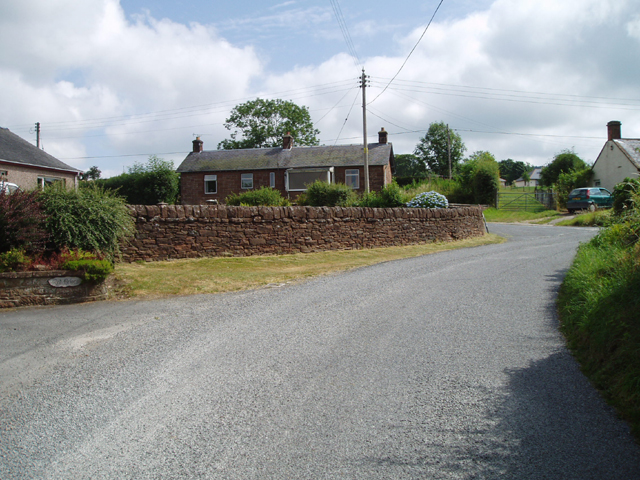 Houses in Tinwald, Dumfries and Galloway